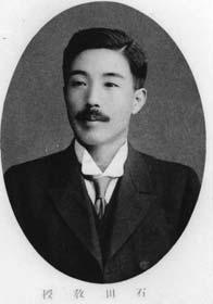 Noboru Ishida